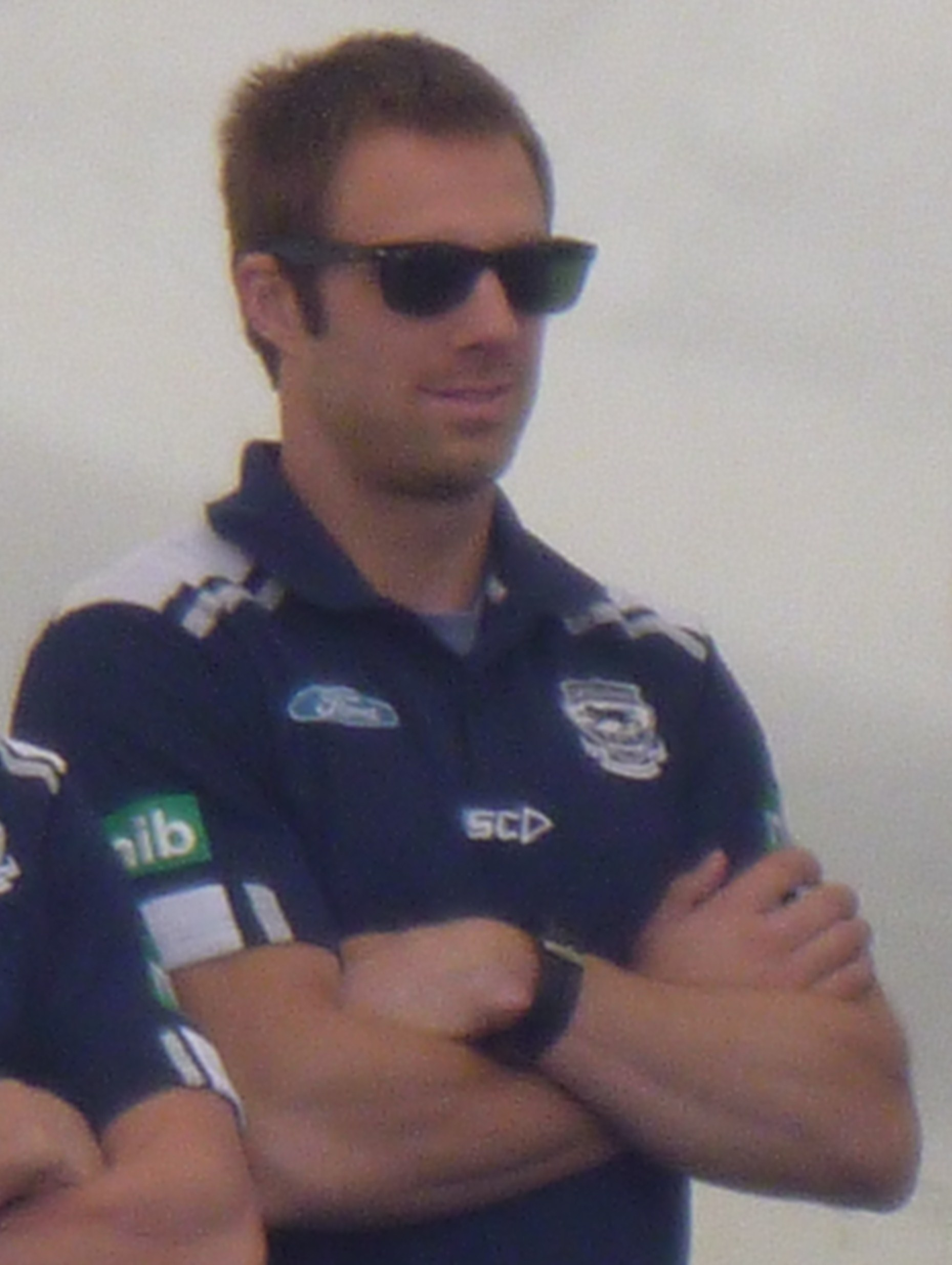 Joel Corey at the Geelong Football Club's 2011 AFL Premiership victory parade in Geelong, Victoria, Australia.